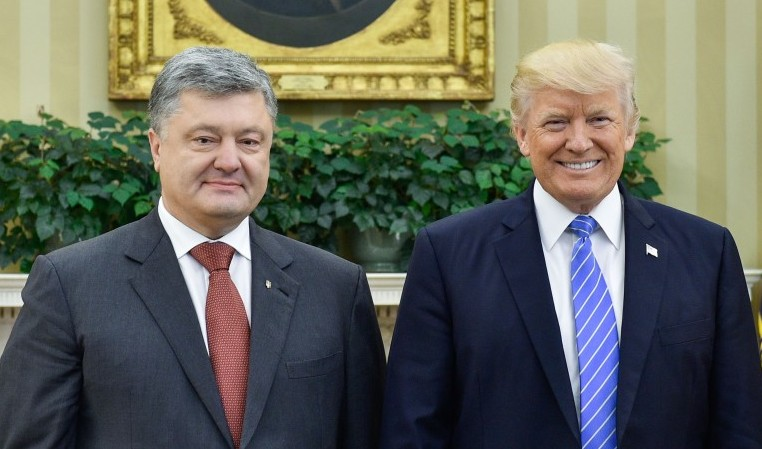 Working visit to the United States of America